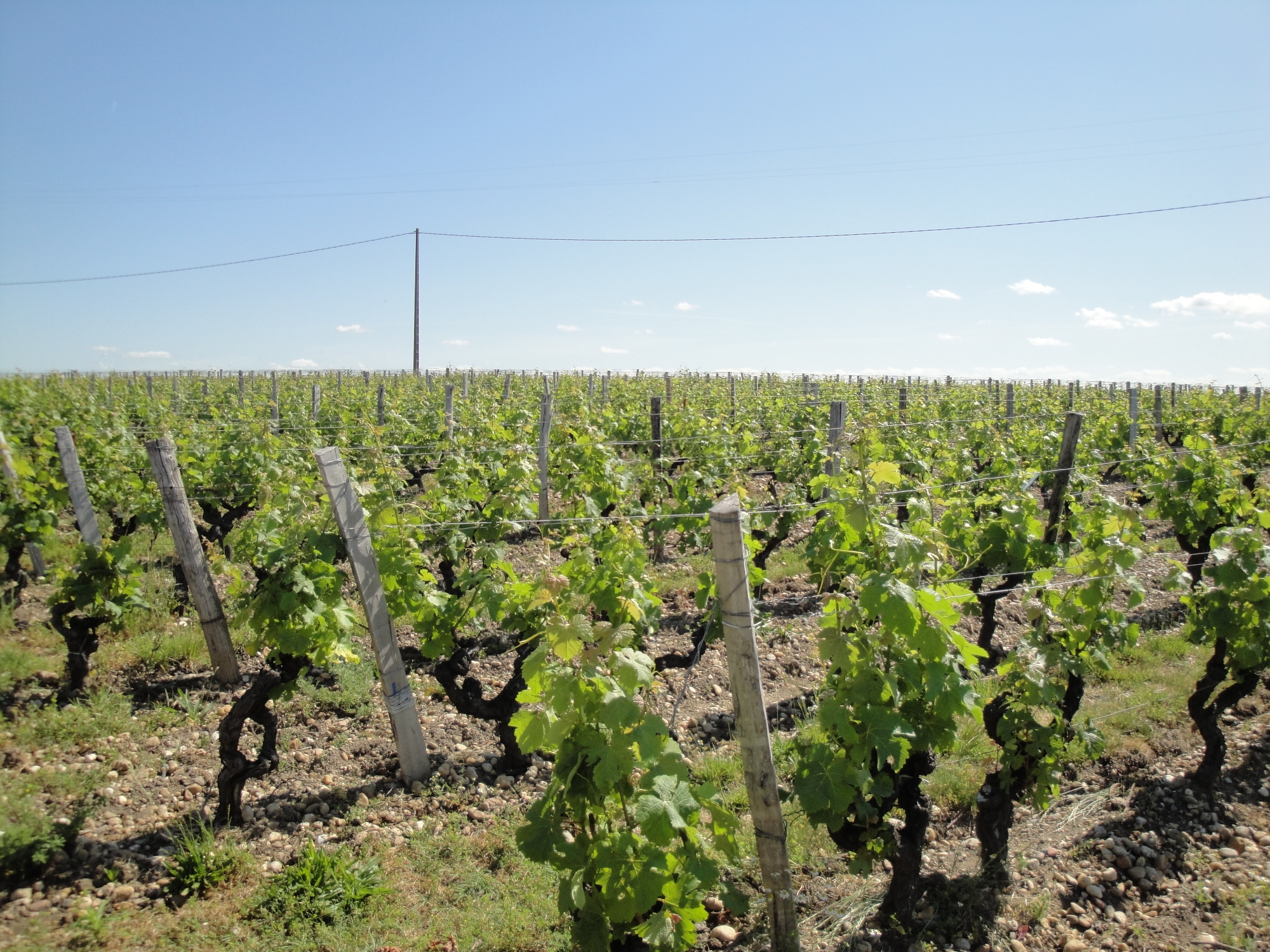 A portion of the vineyard of Château Sigalas-Rabaud, located next to the chai.